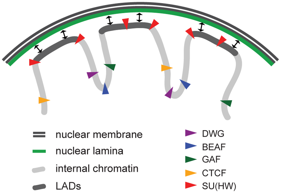 Part of Figure 2. SU(HW) sites are enriched at LAD borders and within LADs."Model of the chromatin organization in LADs, with SU(HW) binding mainly at LAD borders and inside LADs; and DWG, BEAF-32, GAF and CTCF preferentially located in inter-LAD regions."